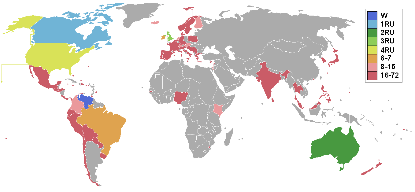 created by Joey80